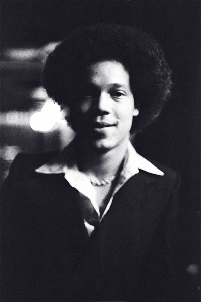 Guitarist Rodney Jones during an appearance with the Dizzy Gillespie Quartet, Buffalo, New York, 1977.